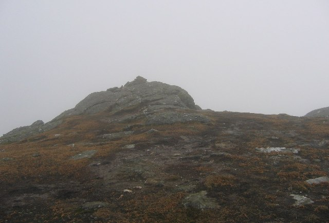 Summit of Sgiath Chùil. Sgiath Chùil is just over 3000' and that means a lot of people visit the top. Wear and tear on the summit plant life is clearly visible in the photograph.